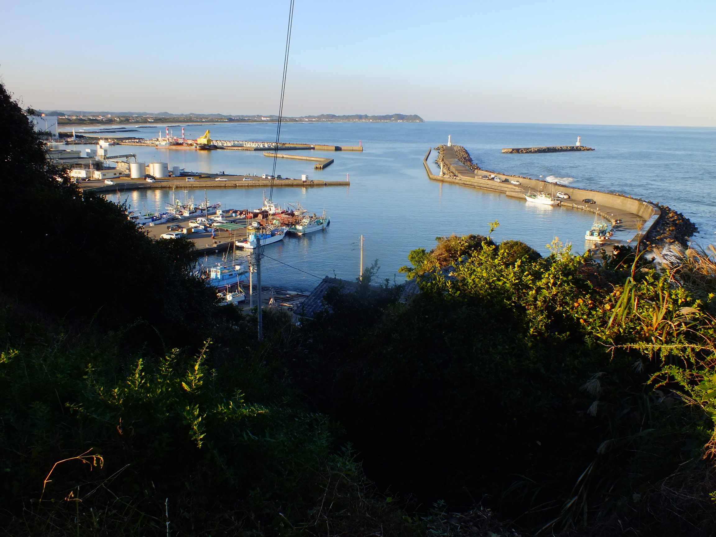 Ohara Fishing Port in Isumi City, Chiba Prefecture, Japan, as seen from Kohama Hachiman Shrine